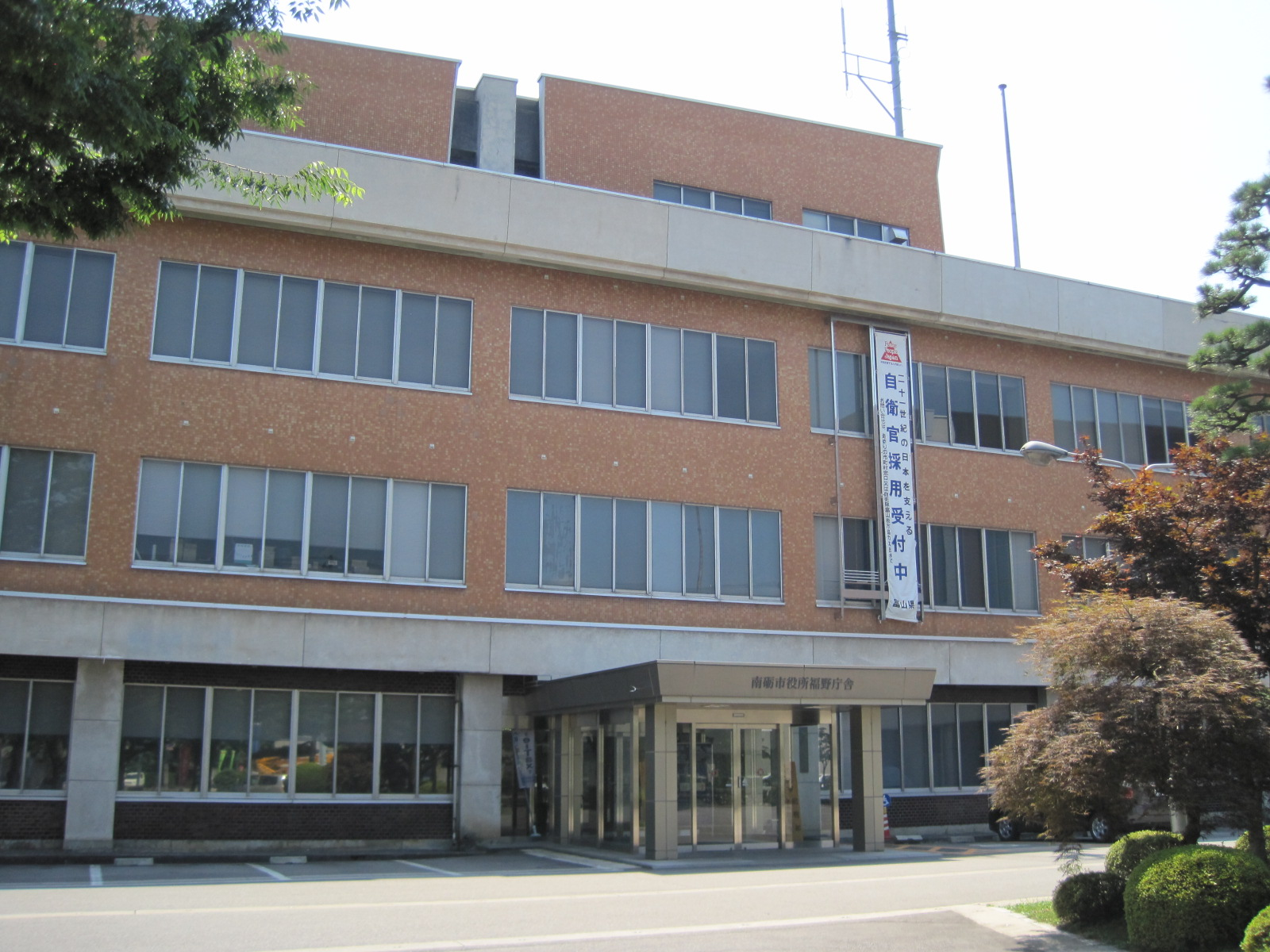 Nanto City Hall Fukuno Branch (Nanto city, Toyama prefecture)